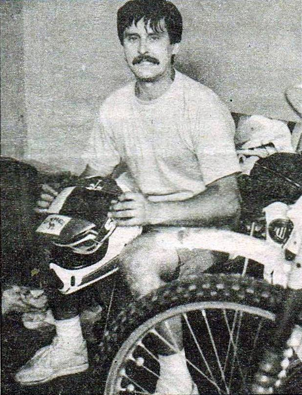 Marek Kępa. Polish speedway rider.